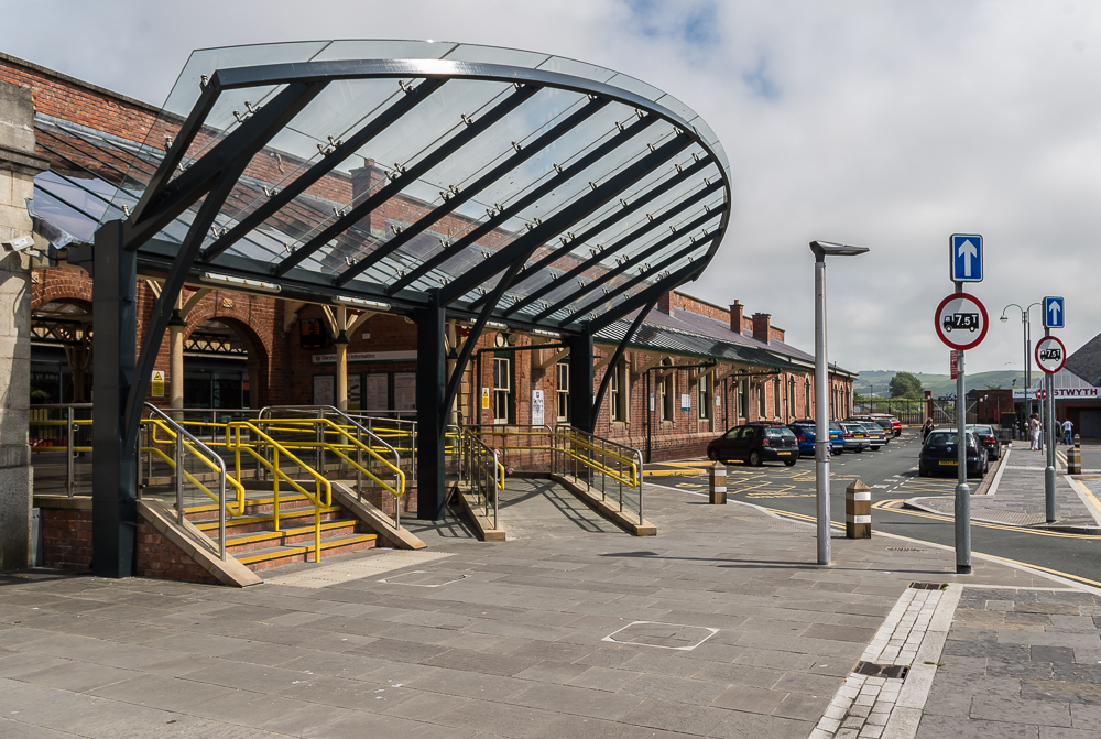 Aberystwyth Station